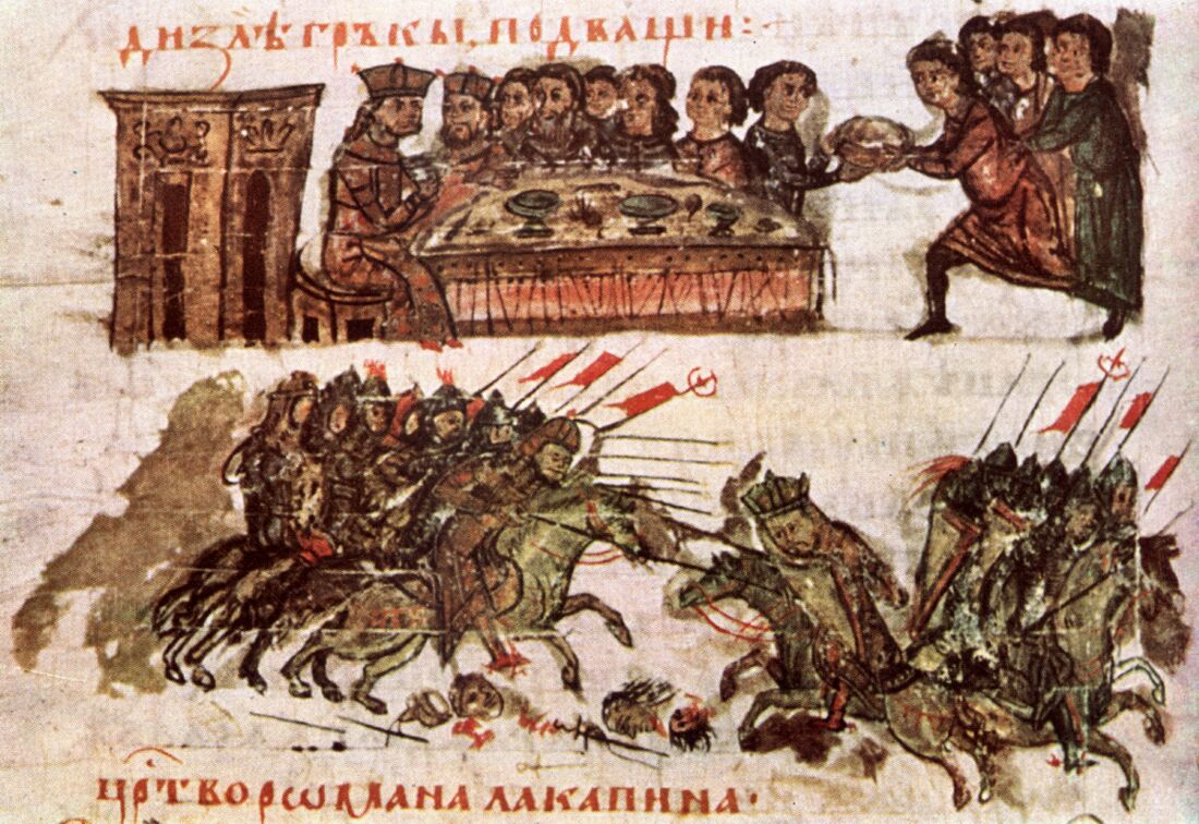 Miniature 60 from the Constantine Manasses Chronicle, 14 century: Feast in Constantinople in the honour of tsar Simeon and a Bulgarian attack upon the Romans.